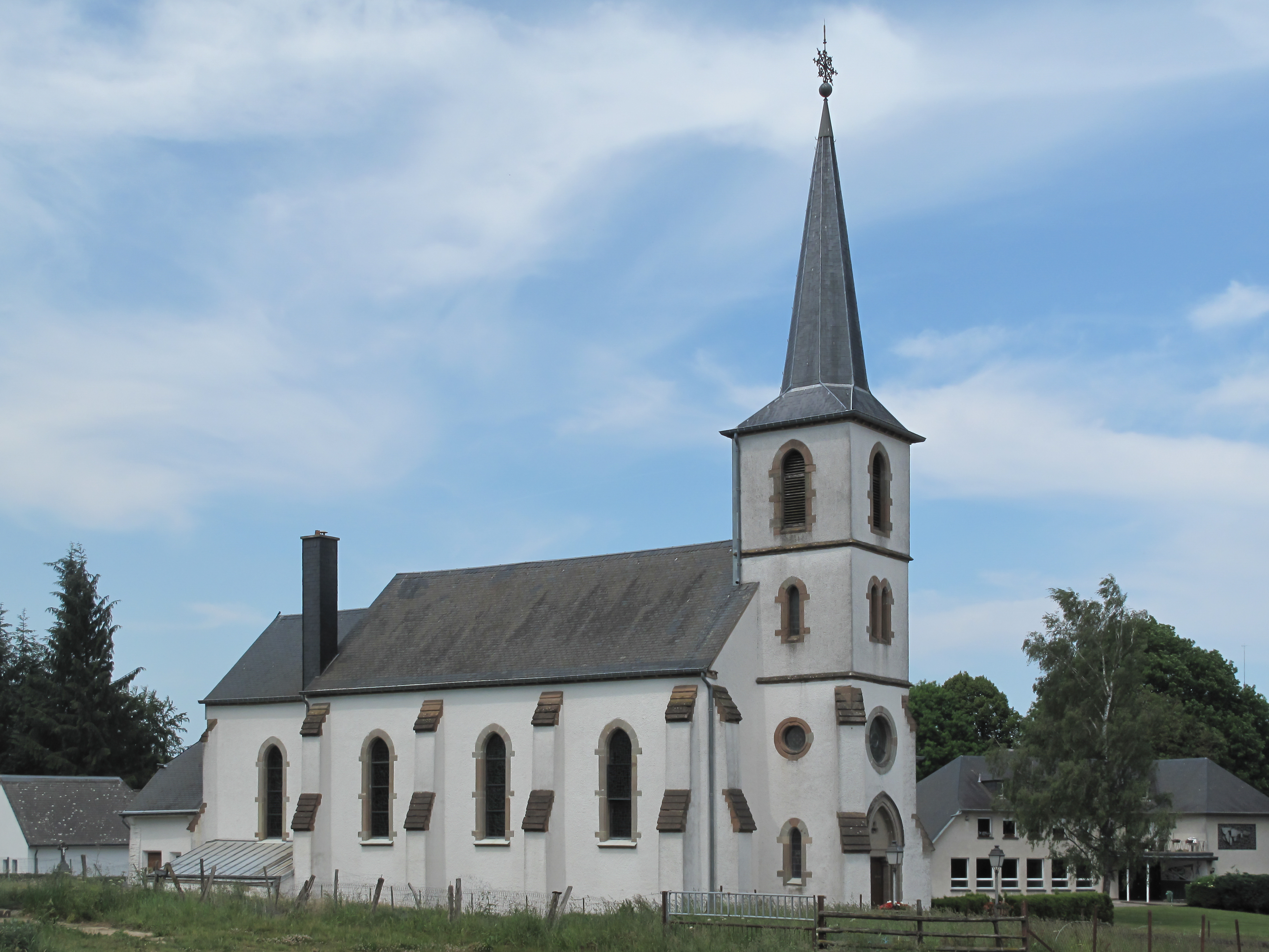 Binsfeld, church